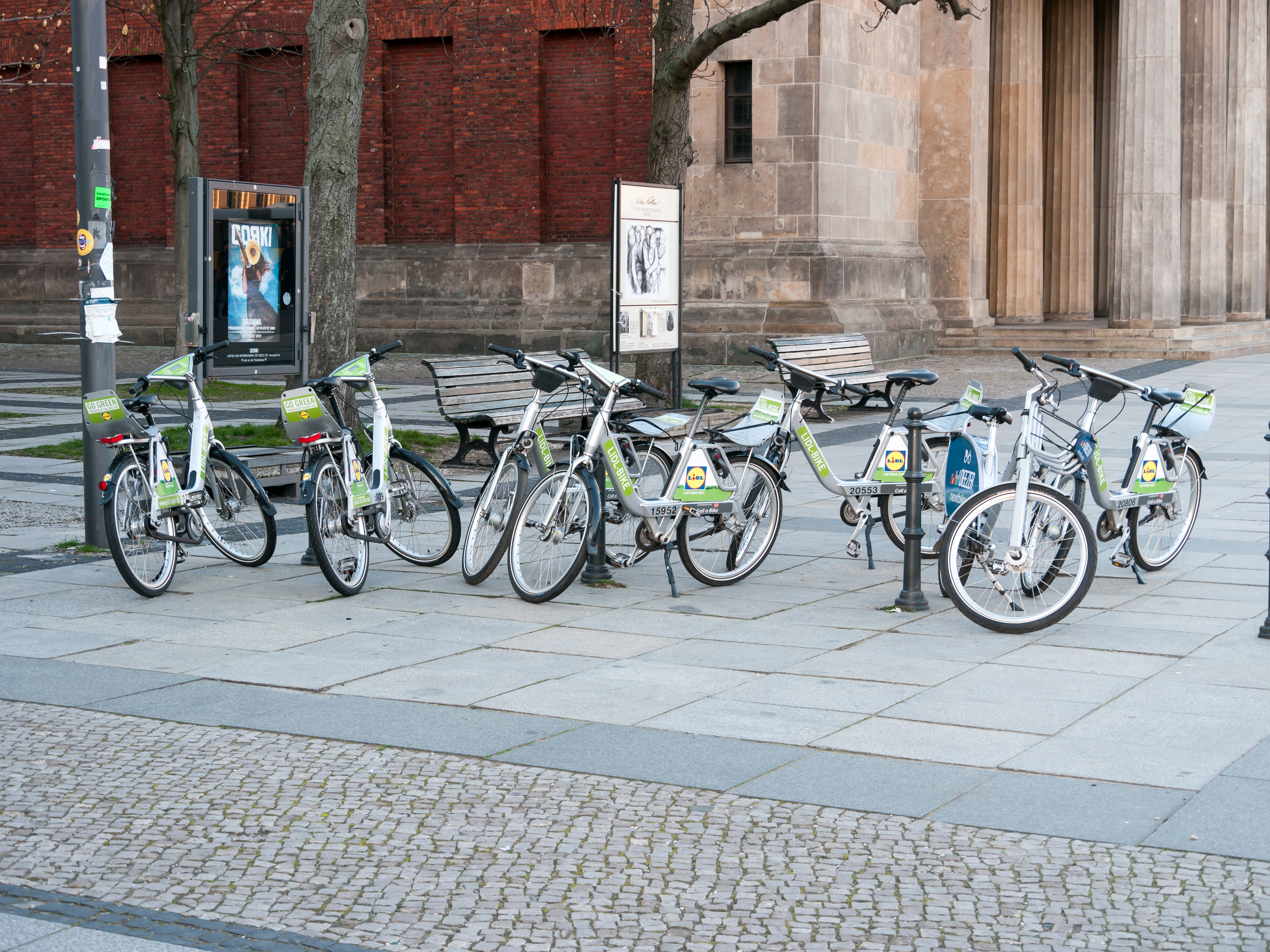 Lidl Bike und Deezer nextbike bicycles in Berlin-Mitte